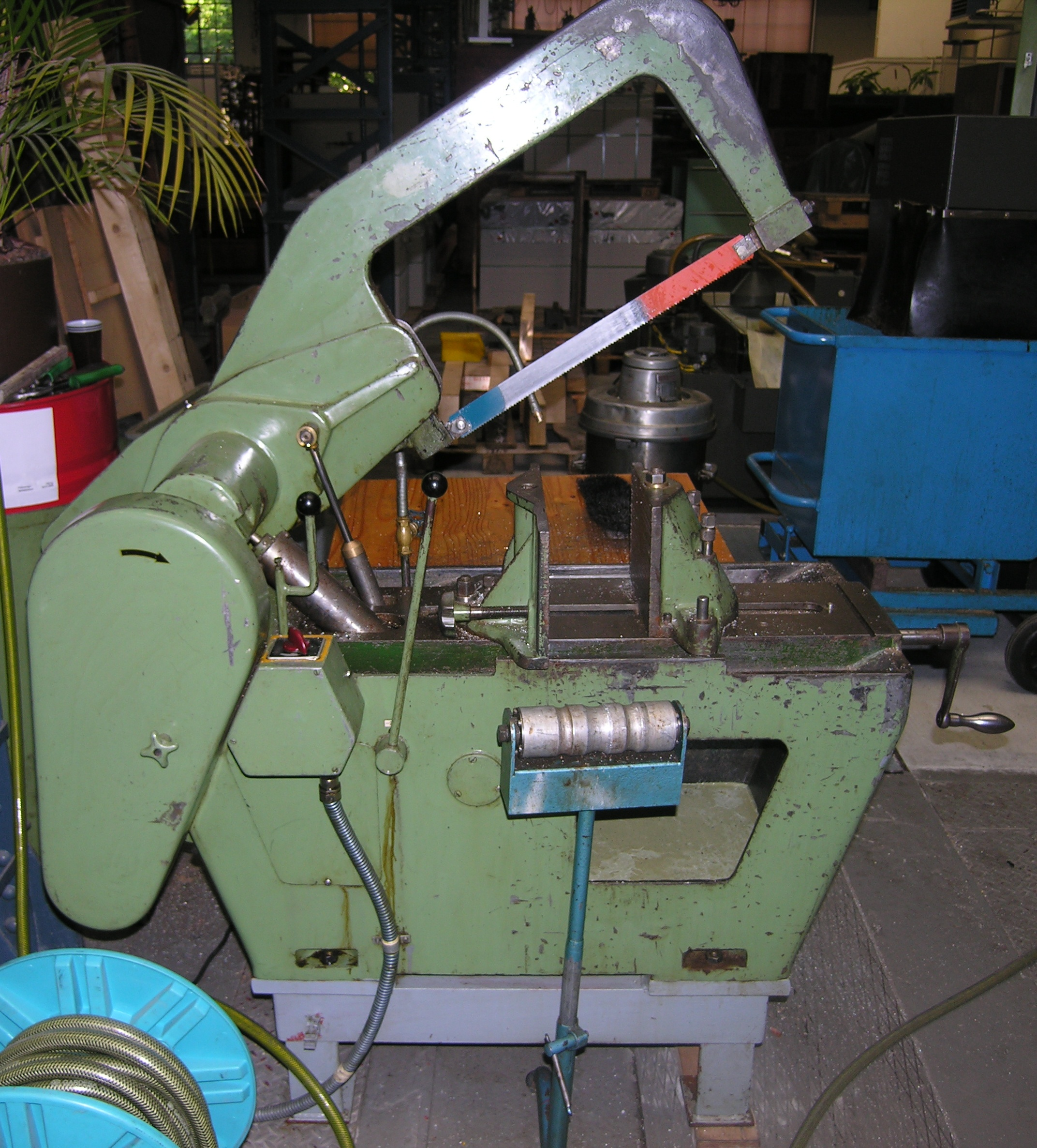 A saw machine. Photo made in Zurich, Hardbrucke. The company seems to make turbines and uses this as a tool.